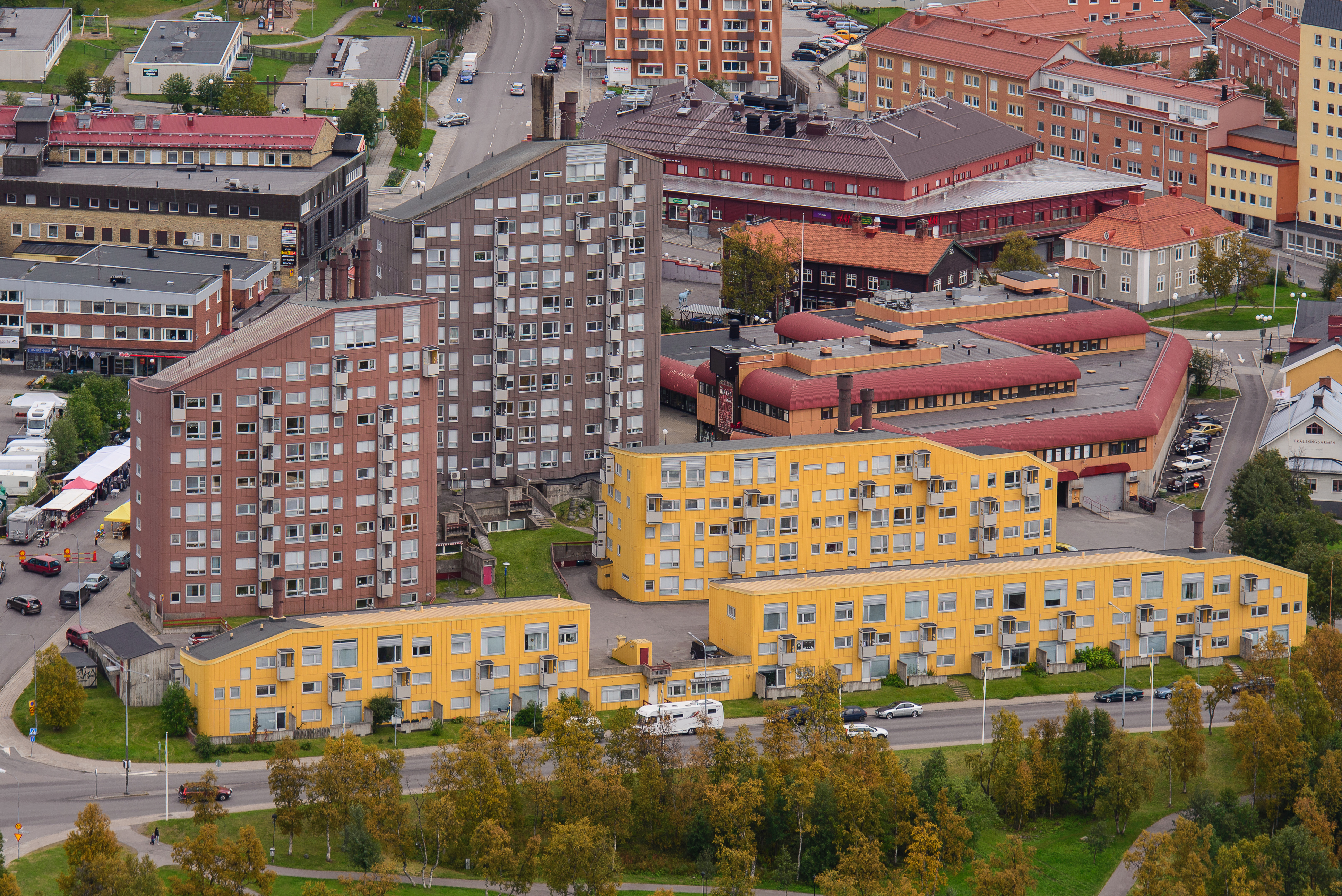 City block "Ortdrivaren" in Kiruna, Sweden. Built 1961. Architect Ralph Erskine.